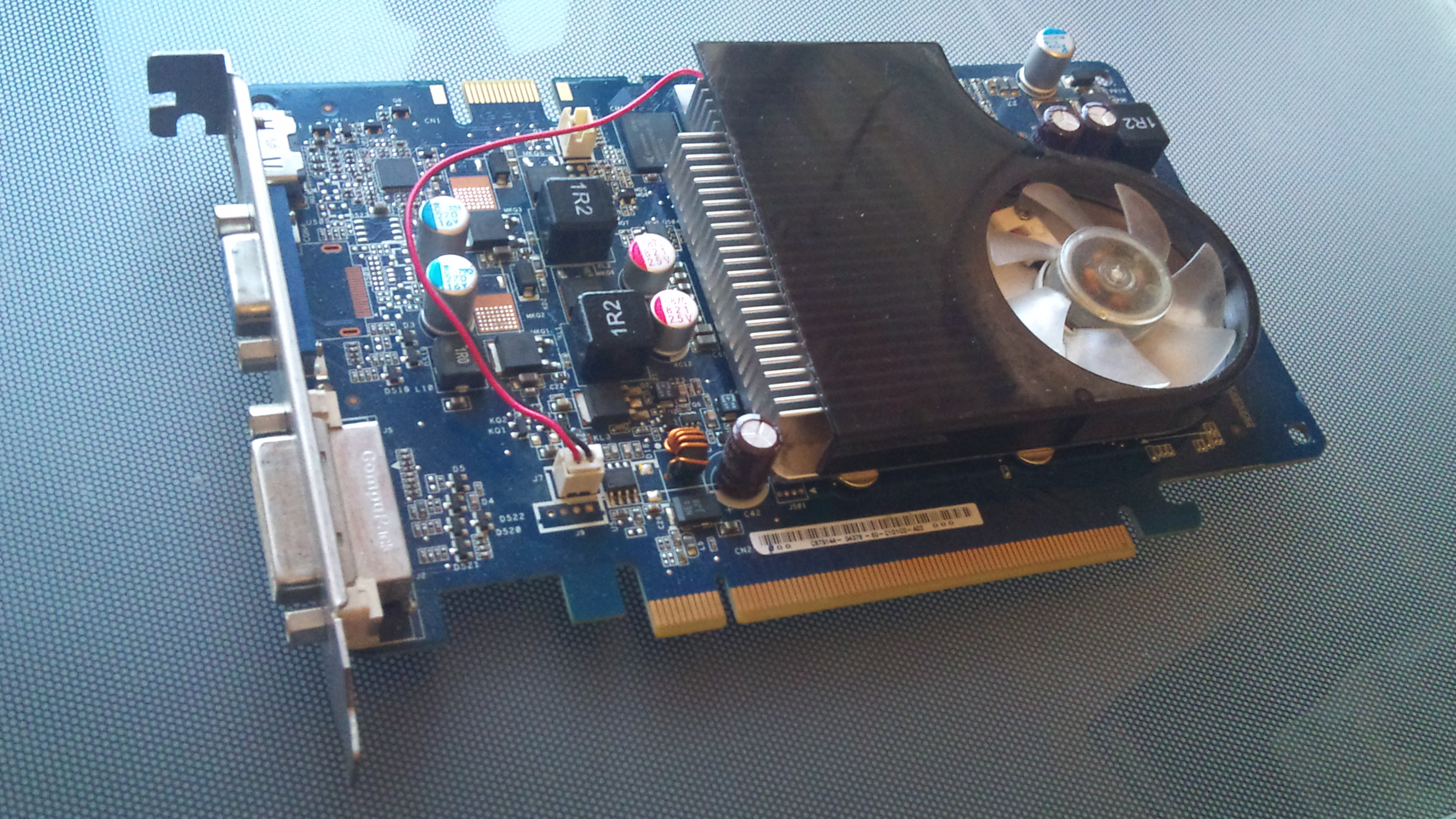 GeForce 9600GS, an HP OEM graphics card, based on the G94a core clocked at 500Mhz with 768Mb of 192bit DDR2.